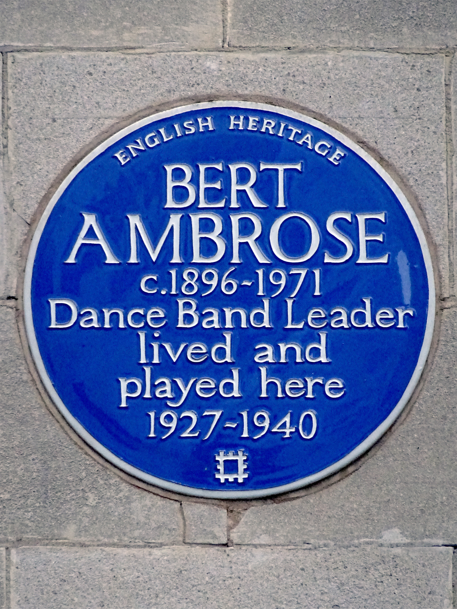 Blue plaque erected in 2005 by English Heritage at The May Fair Hotel, Stratton Street, Mayfair, London W1J 8LT, City of Westminster